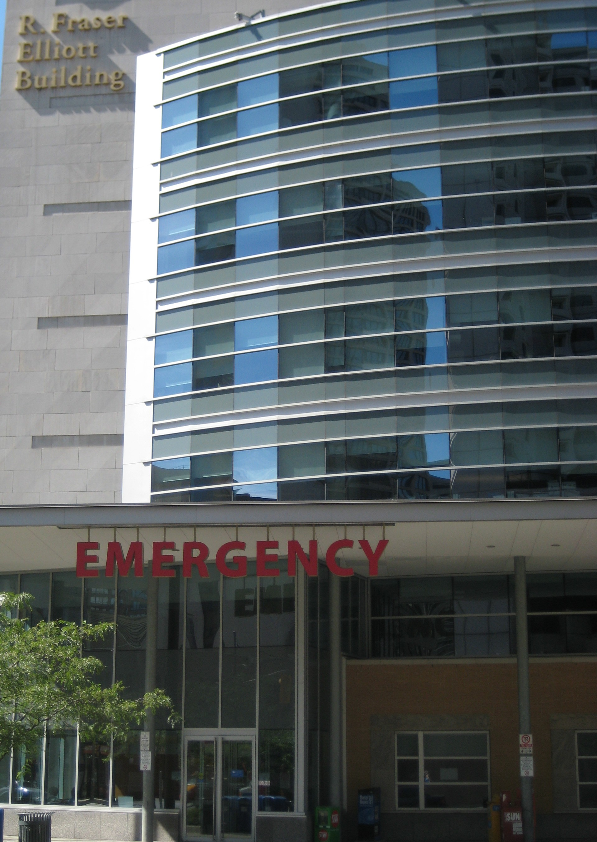 Emergency entrance at the Toronto General Hospital